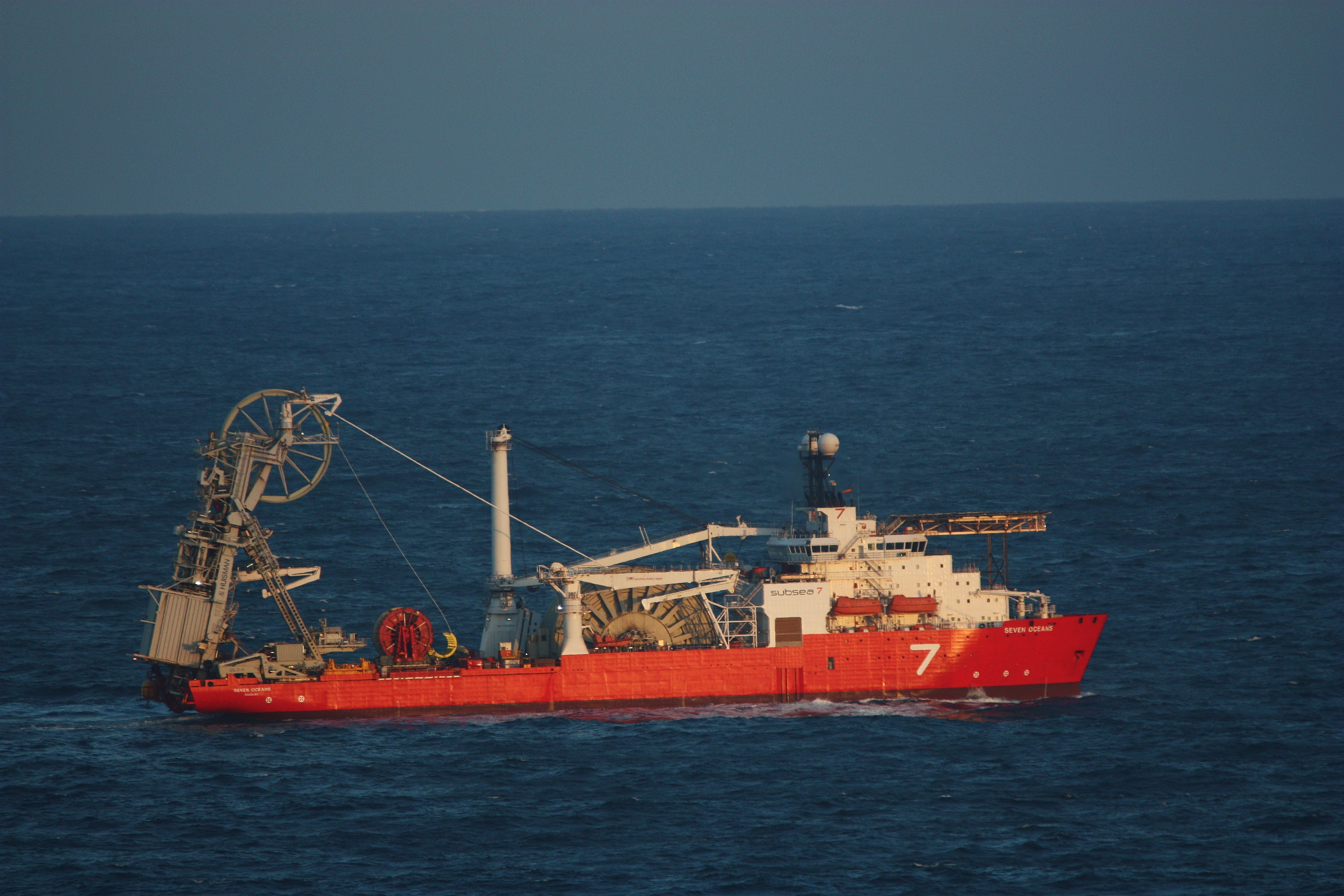 East of Compass Head